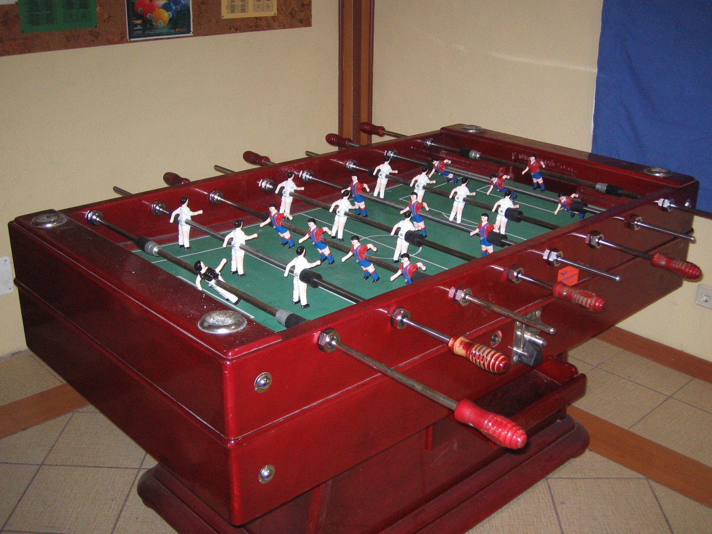 Spanish Football pub game.